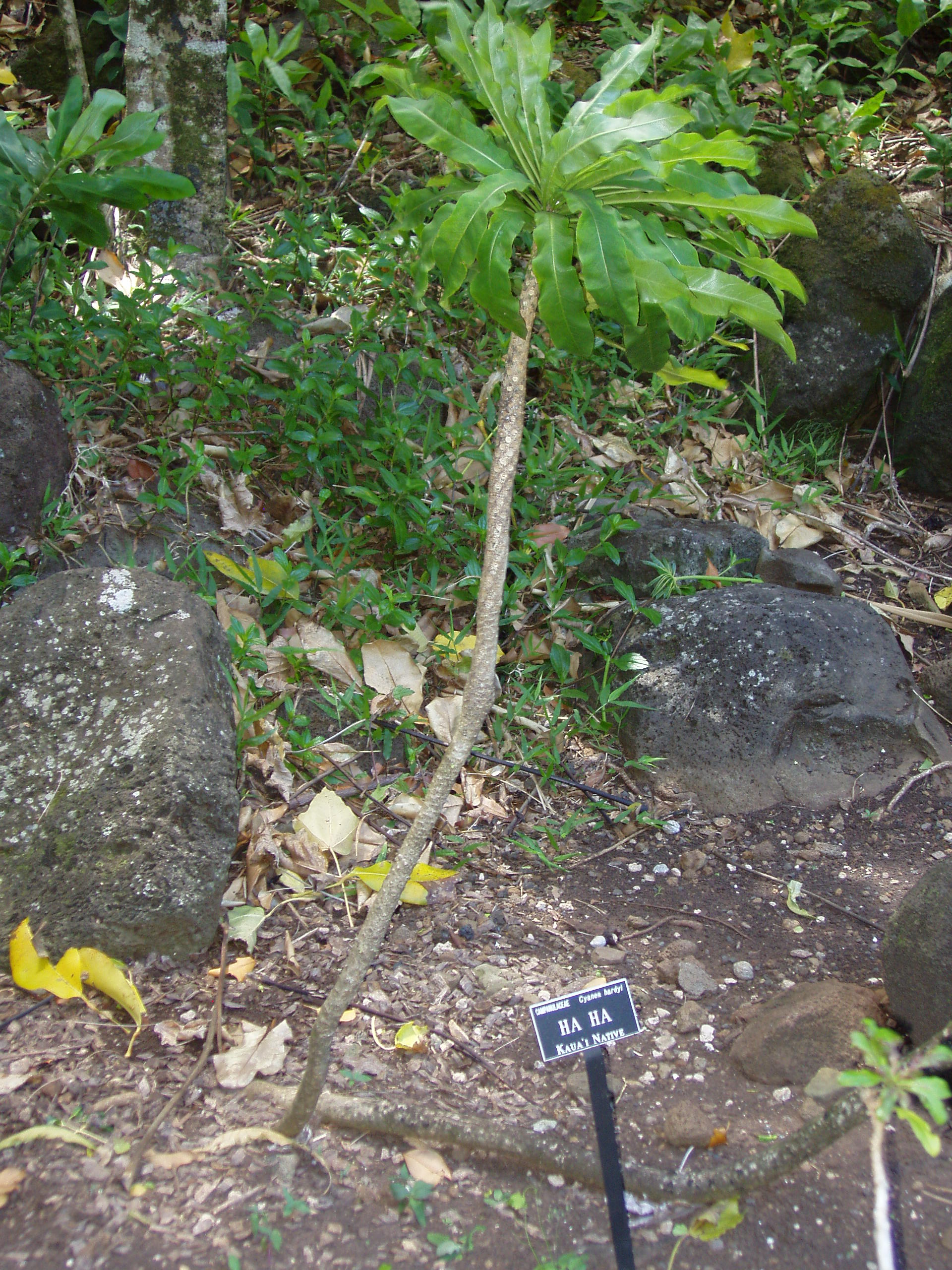 Cyanea hardyi, growing in the Limahuli Garden and Preserve, Kauai, Hawaii.